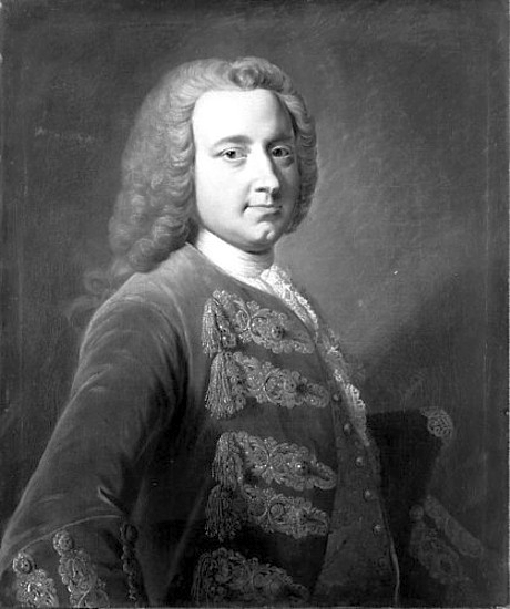 Portrait of a Man[1]